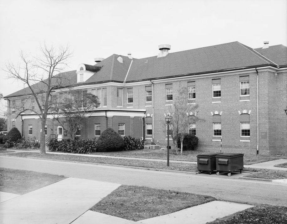 "Southern Branch of the National Home for Disabled Volunteer Soldiers, Building 70, Sewell Avenue, Hampton, VA " (1908), John Calvin Stevens, architect.